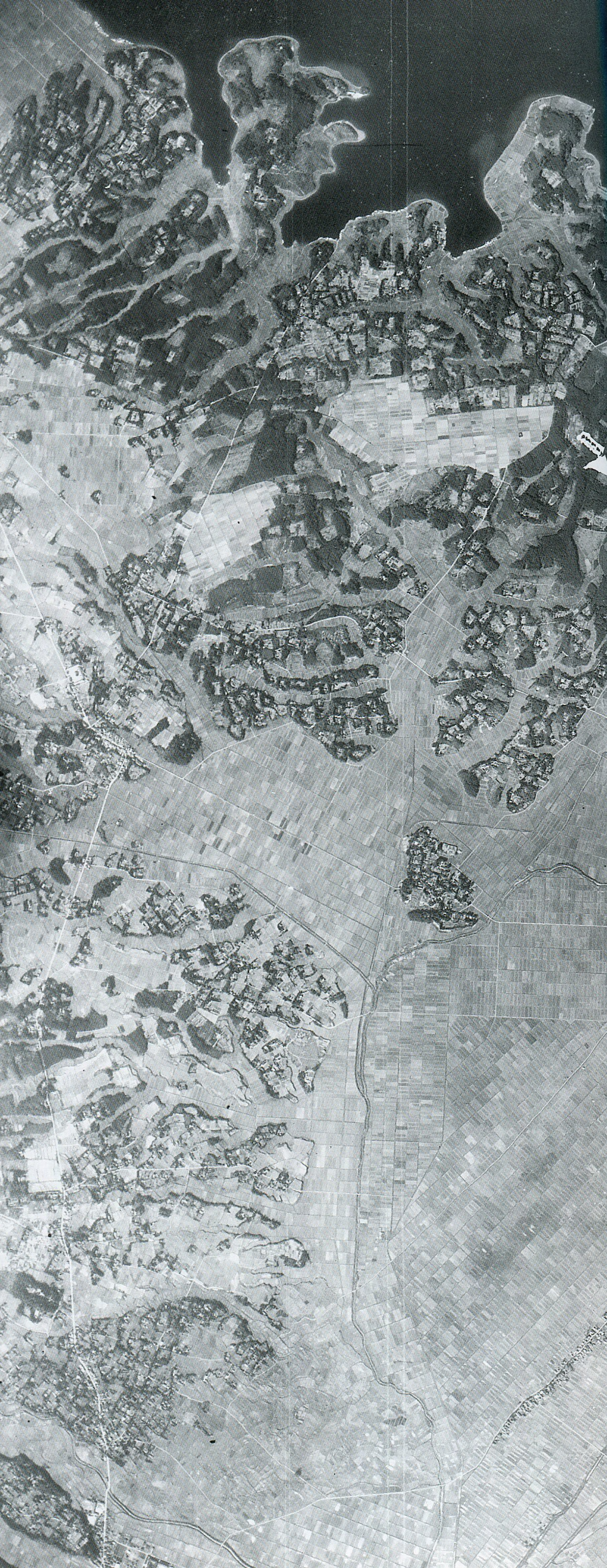 Niiho center area in 1945